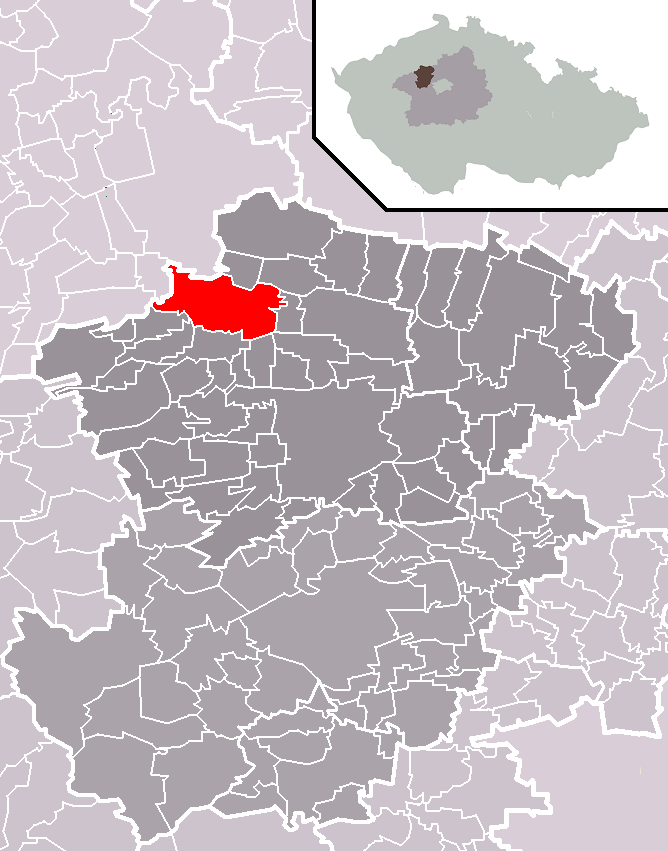 Location of Klobuky municipality within Kladno District and administrative area of Slaný as a Municipality with Extended Competence.